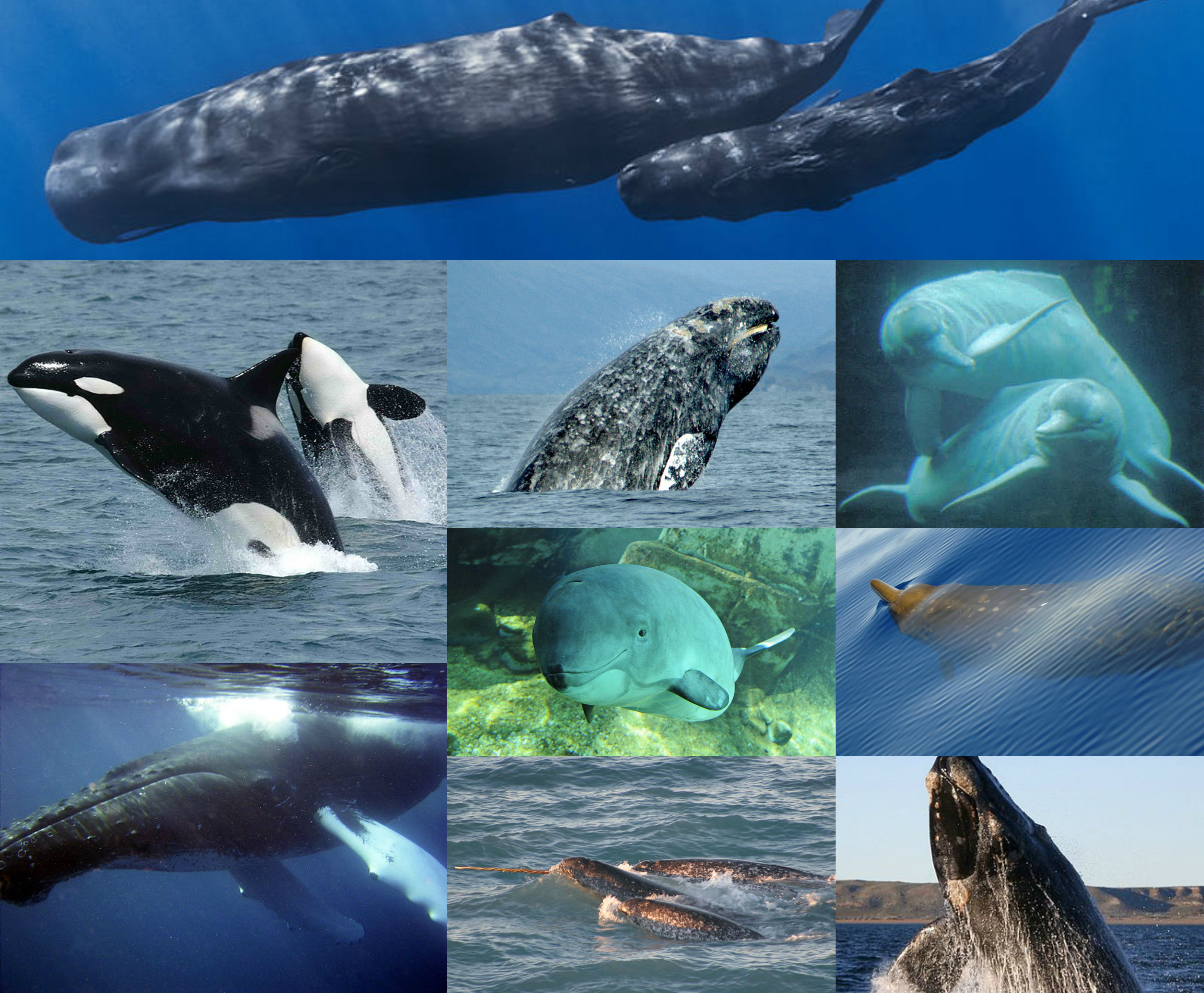 Montages of: File:Amazonas Flussdelfin Apure Orinoco Duisburg 01.jpg Stefanie Triltsch File:Mother and baby sperm whale.jpg Gabriel Barathieu File:Killerwhales jumping.jpg NOAA File:Anim1088 - Flickr - NOAA Photo Library.jpg NOAA File:Jack, a harbour porpoise at Vancouver Aquarium.jpg Marcus Wernicke (Tuugaalik), Porpoise Conservation Society ( File:Beaked Whale.jpg NOAA File:Southern right whale.jpg User:mcatan File:Eschrichtius robustus 01-cropped.jpg Merrill Gosho, File:Pod Monodon monoceros.jpg Dr. Kristin Laidre, Polar Science Center, UW NOAA/OAR/OER